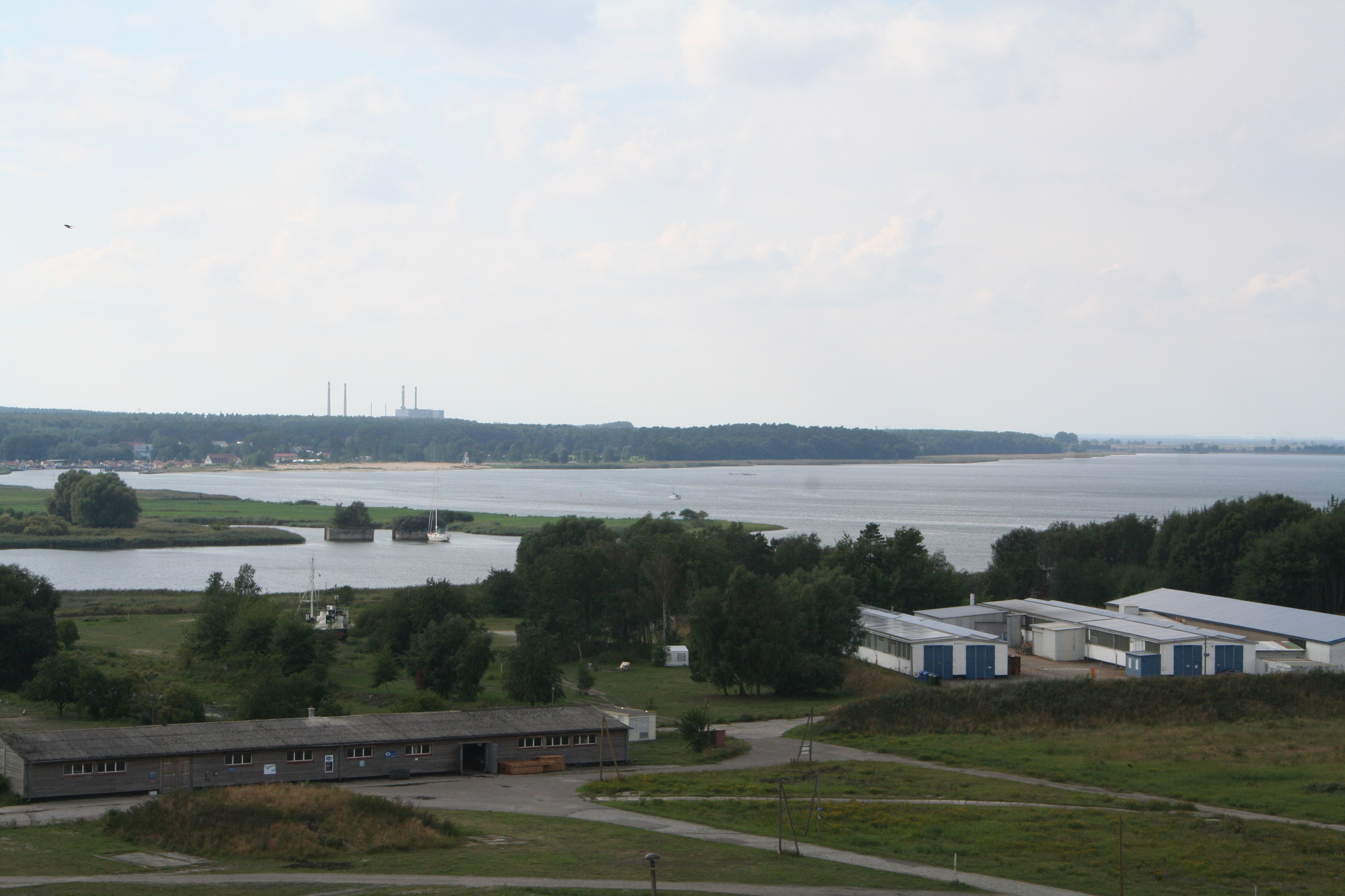 Peenemünde harbour